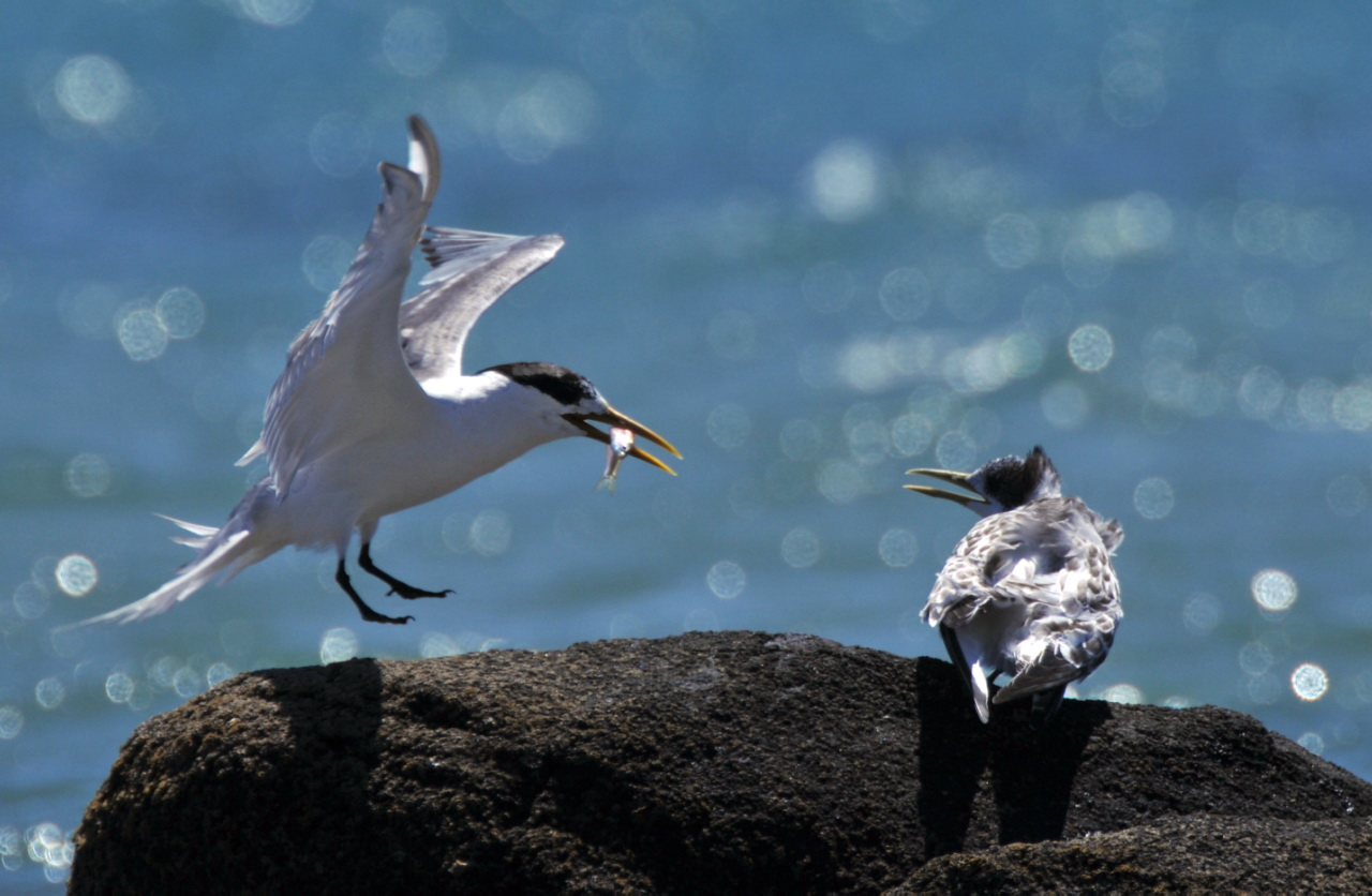 Parents never have it easy, especially when there are kids to feed such as this Little Tern youngster.